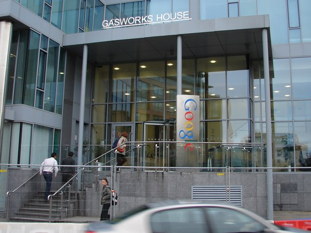 Google Complex (1) Gasworks House - one of Google's two buildings in Barrow Street.